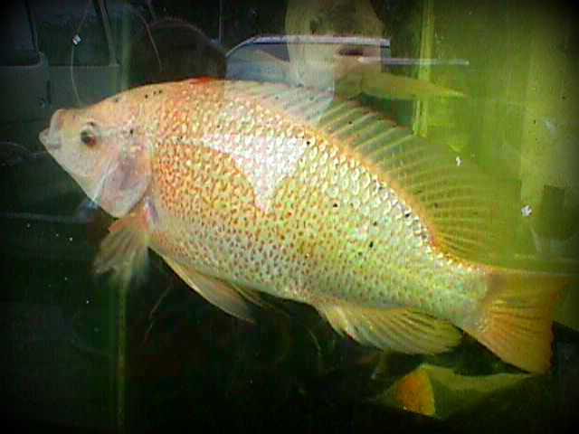 Tilapia in aquarium. Likely a captive variant of an Oreochromis species (probably O. aureus, O. niloticus or a hybrid involving one of these).